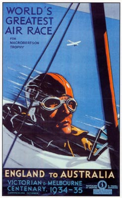 MacRobertson airrace poster 1934